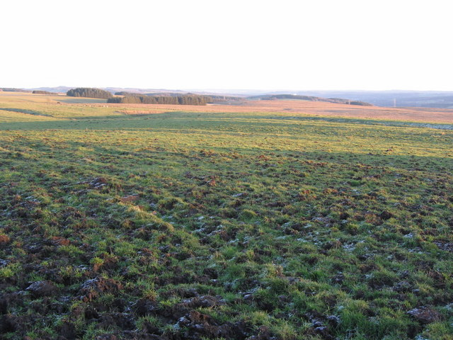 (The site of) Turret 31b on Hadrian's Wall near Carraw Farm